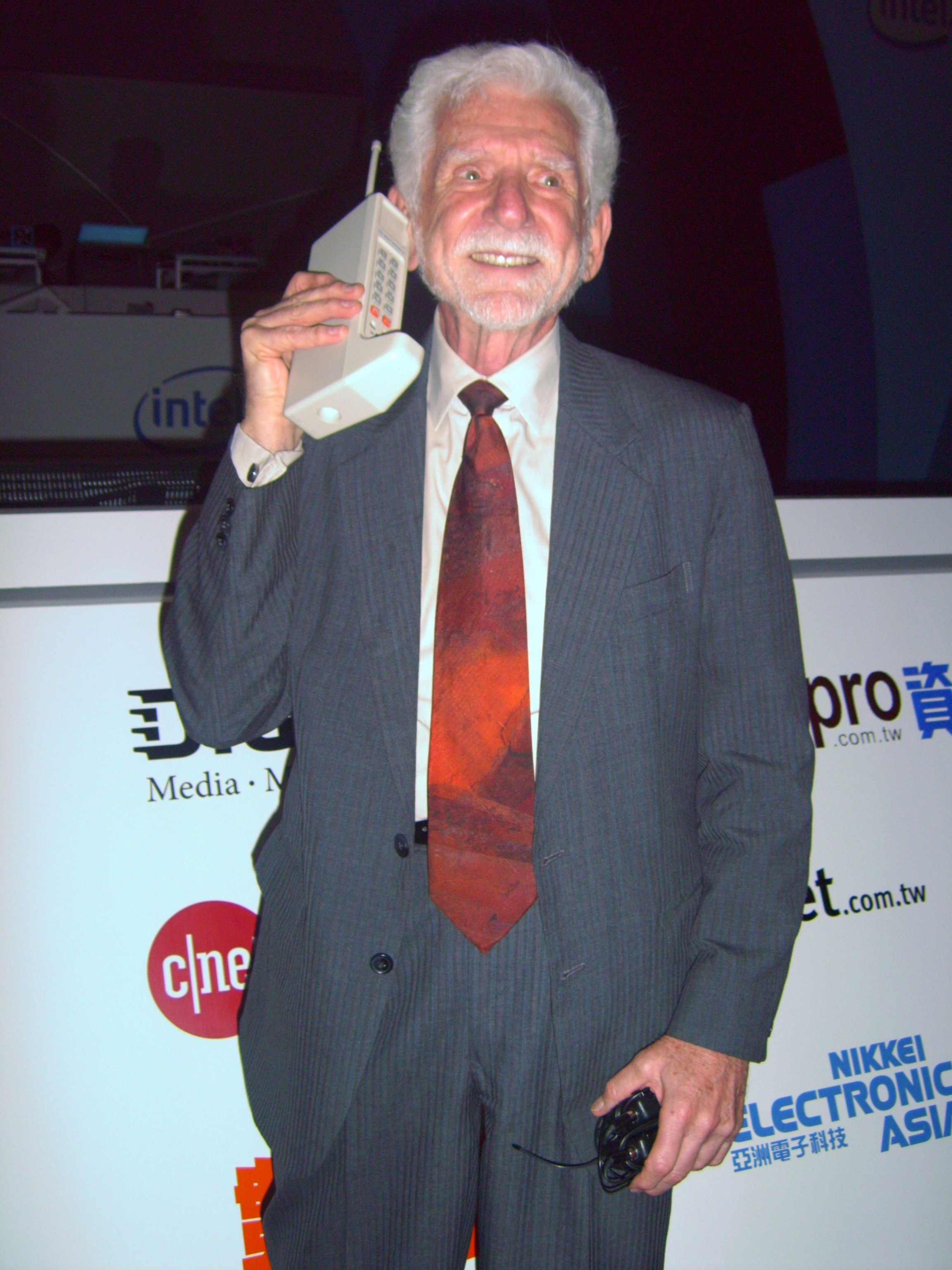 Dr. Martin Cooper, the inventor of the cell phone, with DynaTAC prototype from 1973 (in the year 2007).